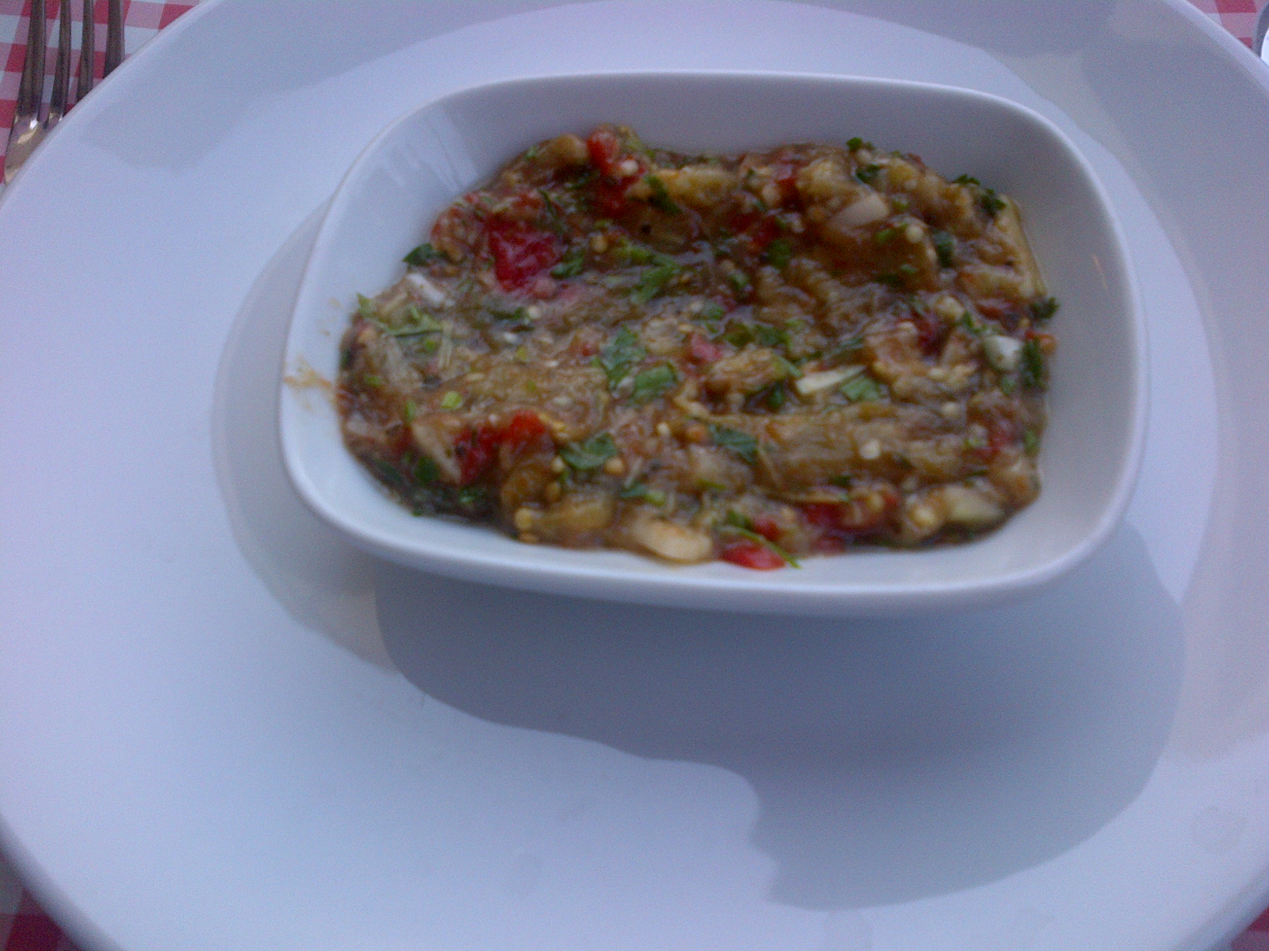 A small portion of eggplant sald ("patlıcan salatası" in Turkish) as an amuse-goule.